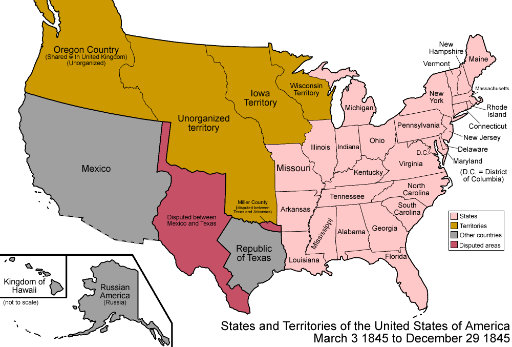 Map of the states and territories of the United States as it was from March 1845 to December 1845. On March 3 1845, Florida Territory was admitted as the state of Florida. On December 29 1845, the Republic of Texas and all of its claimed lands were admitted as the state of Texas.